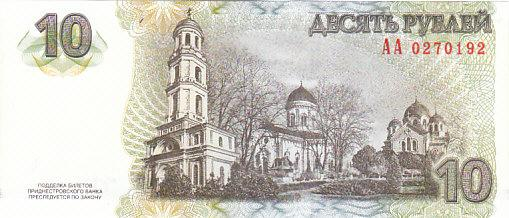 10 Transnistrian rubles